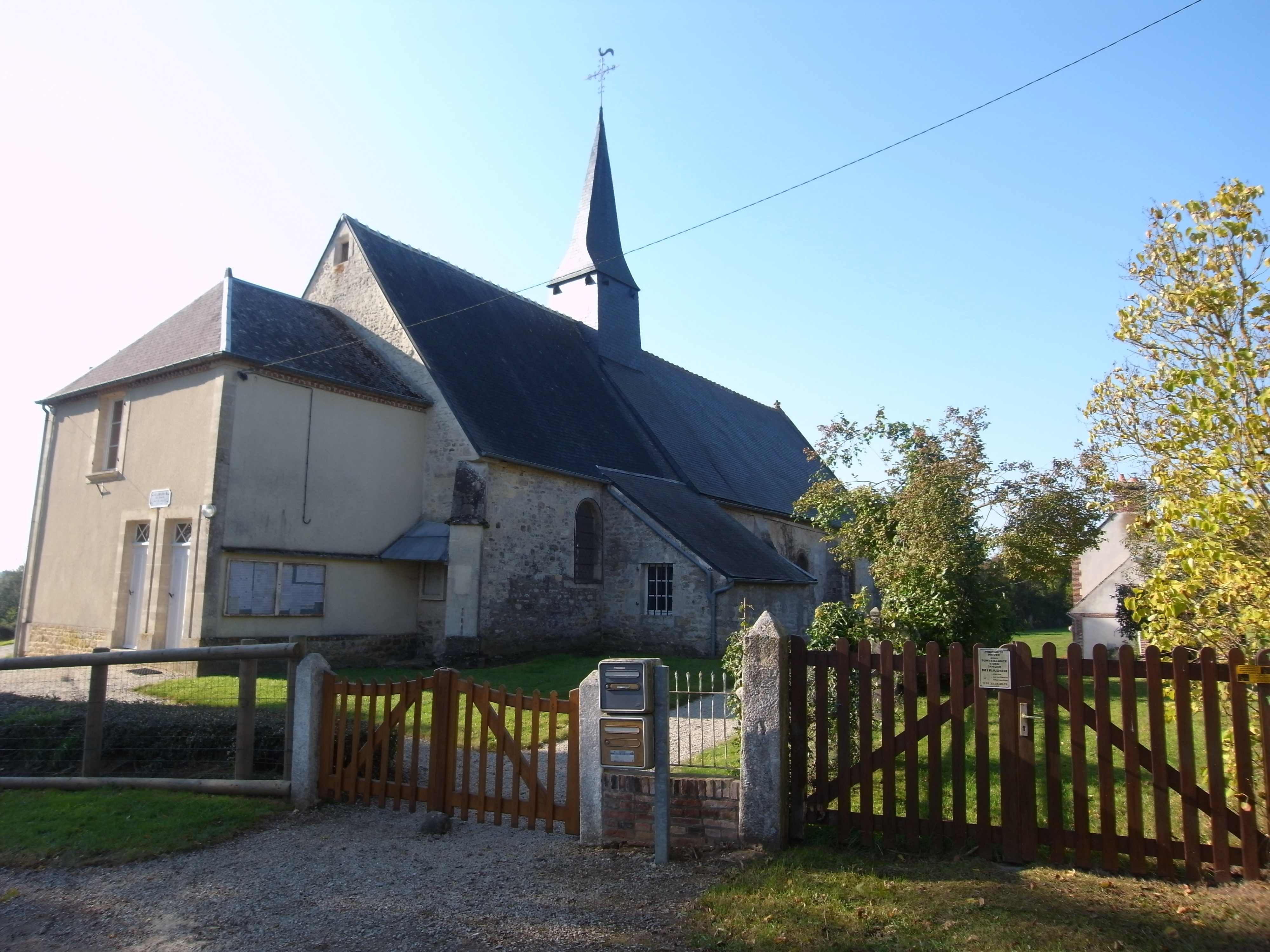 Center of ginai